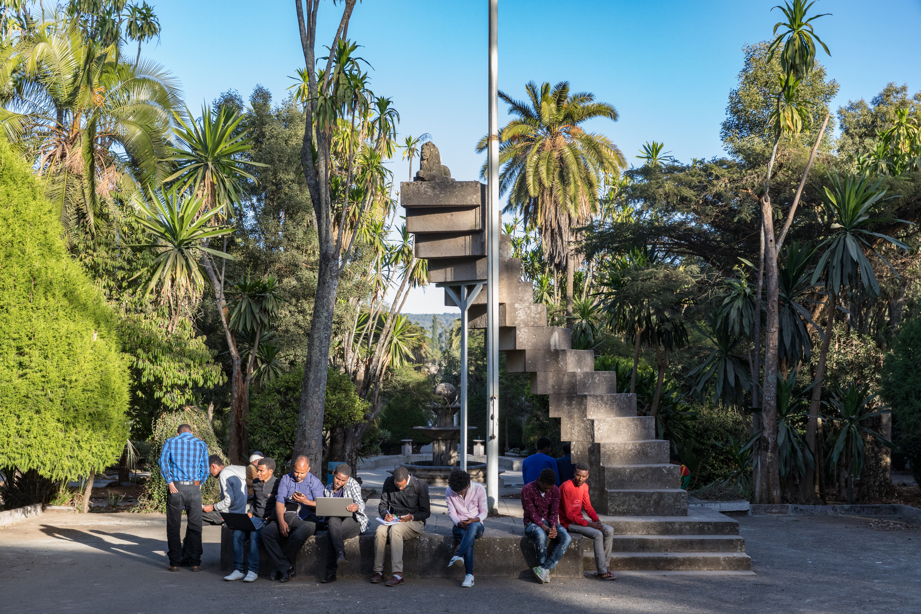 University of Addis Ababa Campus, Stairs of the Lion of Judea